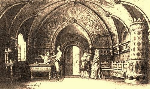 Design for the Terem Scene used in the premiere production of the opera Boris Godunov at the Mariinsky Theater (1874)